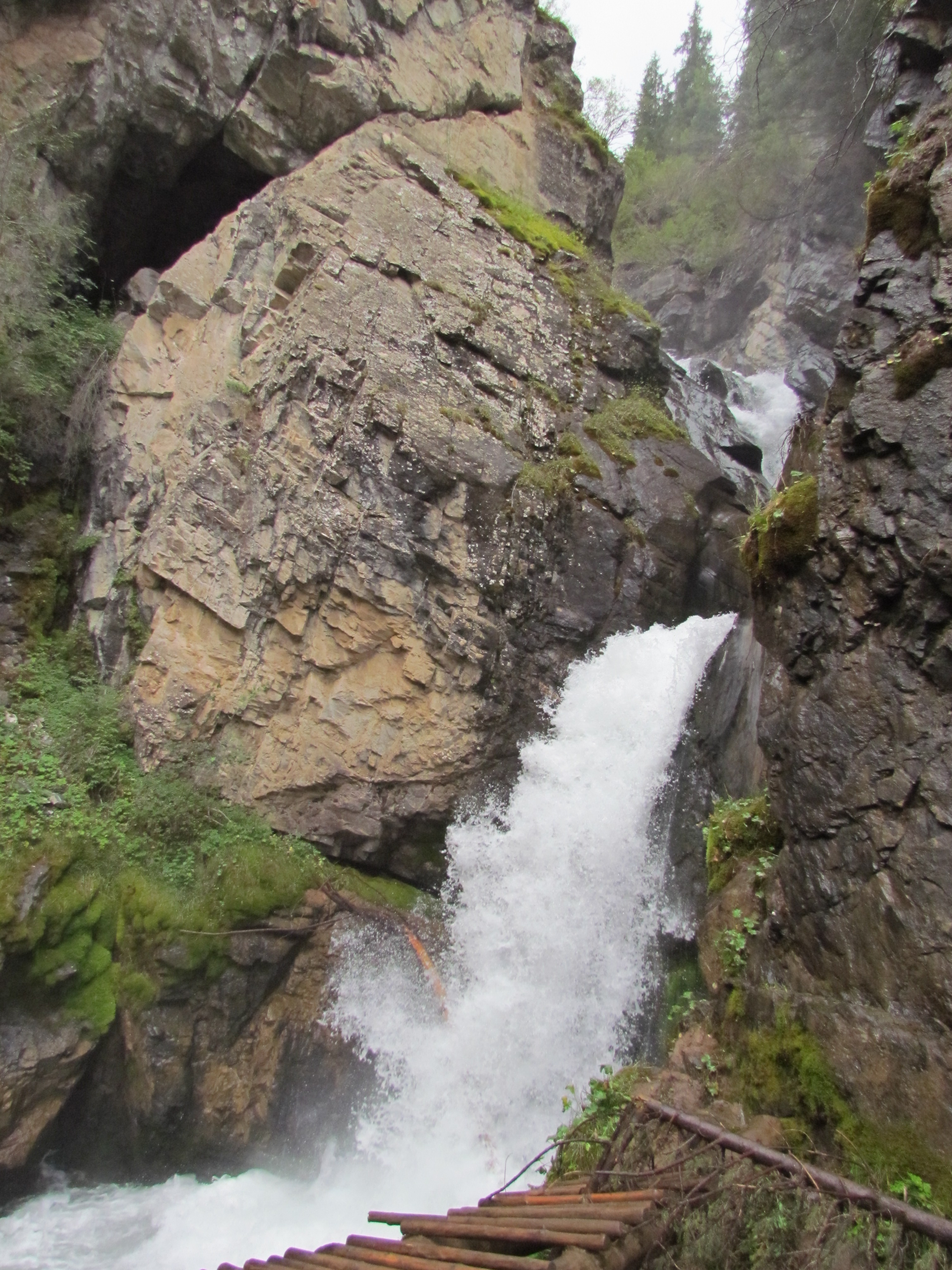 Kairakskiy Waterfall